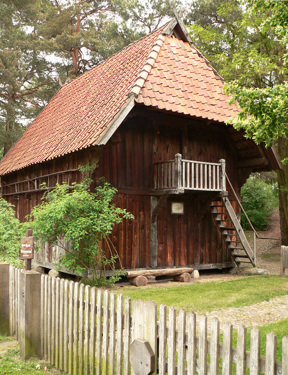 Storage barn, Winsen Museum Farm, Lower Saxony, Germany.